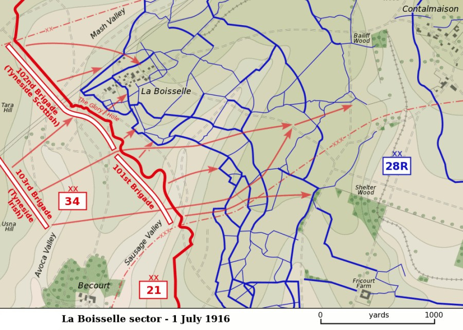 Map showing location of "Sausage Valley" south of La Boiselle, as at 1 July 1916 during the Battle of Albert.